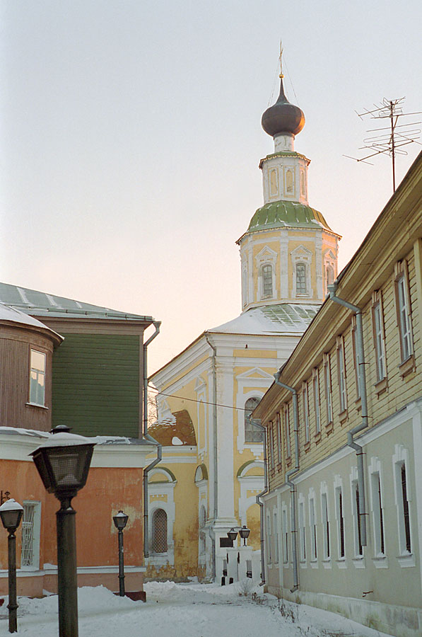 Vladimir, St George's Church